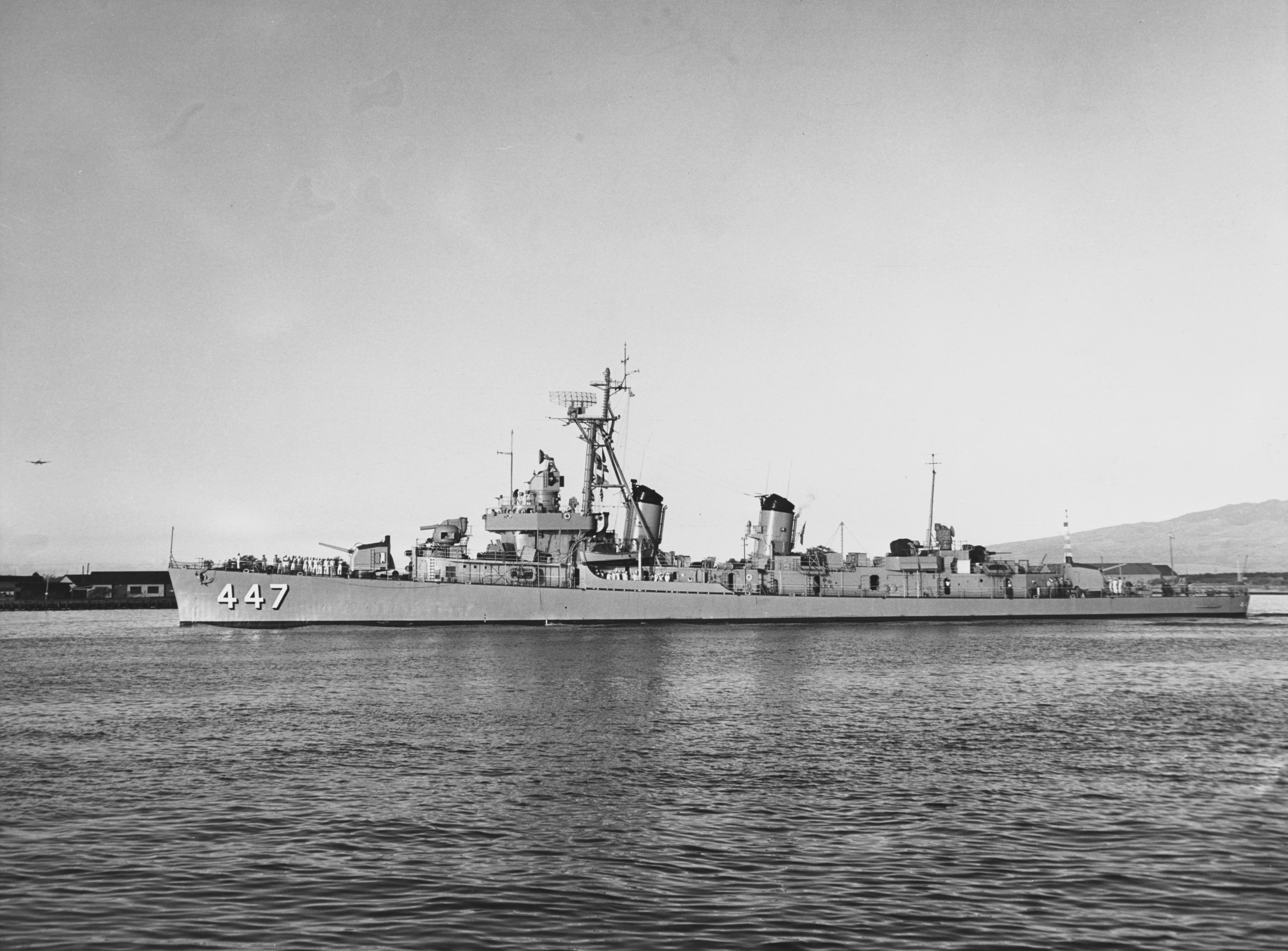 The U.S. Navy Fletcher-class destroyer USS Jenkins (DDE-447) off the Able Docks while leaving Pearl Harbor Channel, Hawaii (USA), on 14 January 1953.